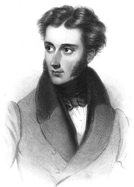 Engraving of English politician and poet Winthrop Mackworth Praed (died 1839). From The Poems of Winthrop Mackworth Praed, edited by Rev. Derwent Coleridge. London: Edward Moxon and Company, 1864